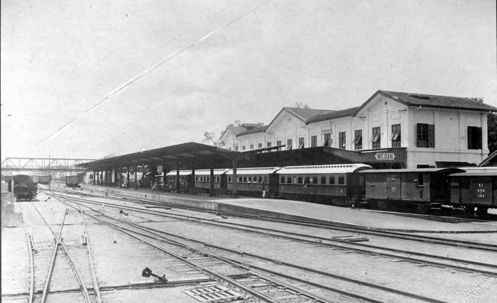 The Railwaystation of the Deli-Railway-Company in Medan, Sumatra